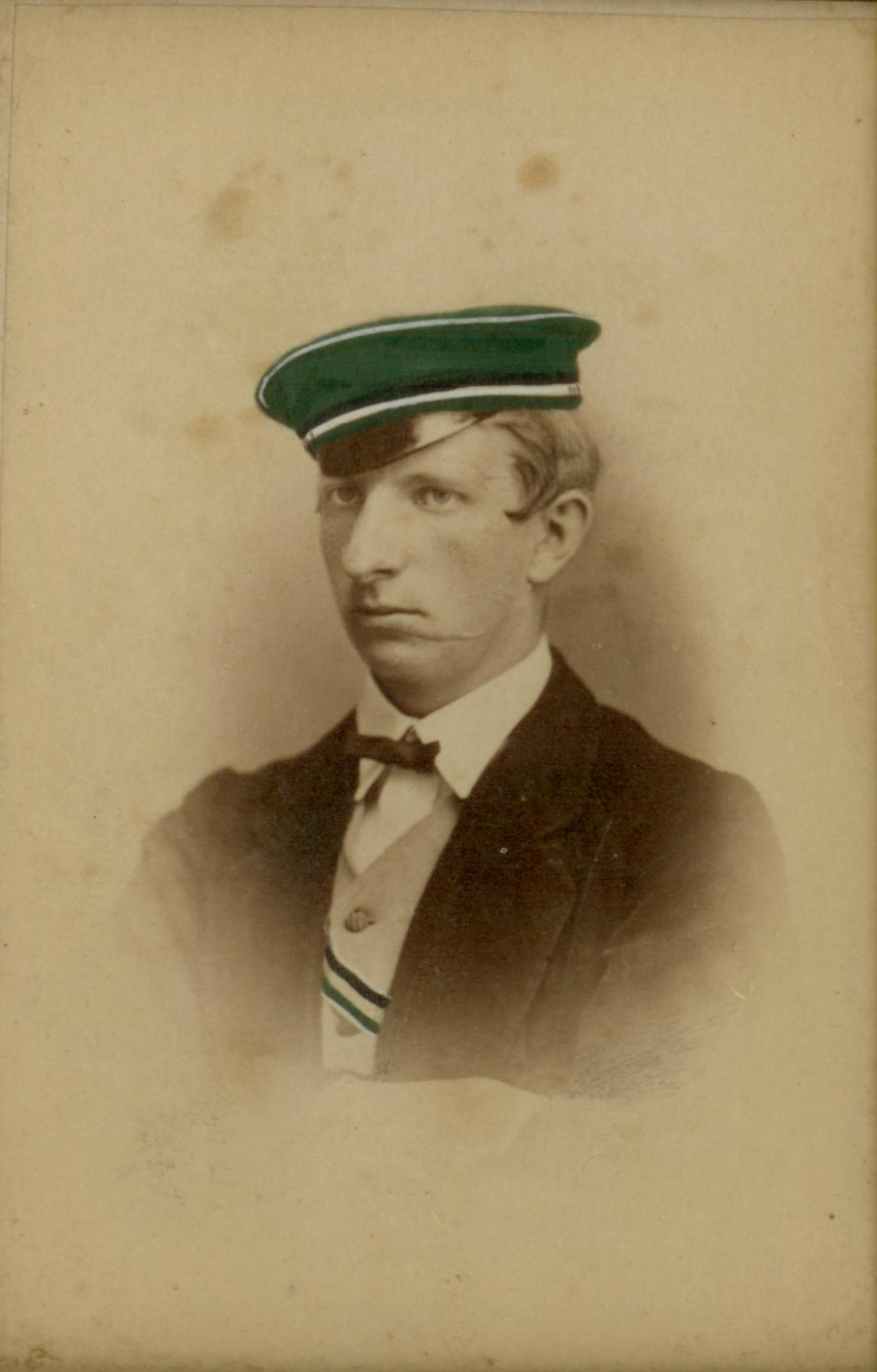 Photographic portrait of Ernst von Kannewurff (1850-1907)